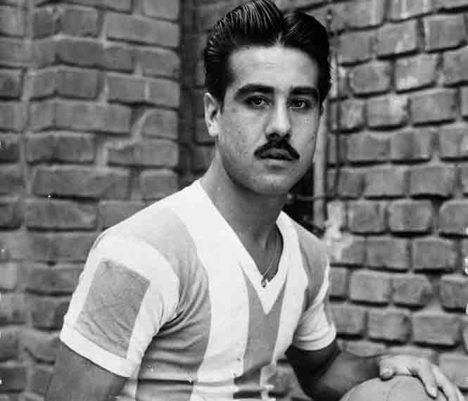 Norberto "Tucho" Méndez, a notable football player for Racing Club and Argentina national team.